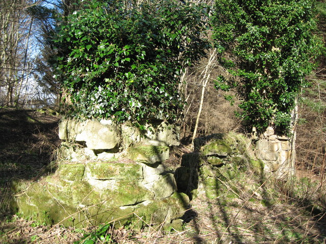 Nafferton Castle/Lonkin's Hall on the west bank of the Whittle Burn adjacent to the A69 The remains of an enclosure castle and a later tower house, situated on the western edge of the steeply incised Whittle Burn. The castle is visible as substantial rectangular enclosure, which measures a maximum of 45m by 7m within a rampart 6m wide and a ditch 10m wide on the northern and western sides; the eastern side of the enclosure is afforded natural defence by the steep slopes above the Whittle Burn and the south side is defended by a natural ravine. Documents record the existence of a castle at the site by 1218, when its owner Philip de Ulecotes was ordered to demolish a new wooden tower which was being constructed without licence. In 1221 the tower, which was still standing, was ordered by the King to be dismantled and its timbers were removed to build a new gaol at Newcastle-upon-Tyne. The defensive earthwork enclosure remained. Within the south western corner of the enclosure there are the remains of a stone built tower house thought to be of C15 or C16 date. The site was held during Edward I reign by the Feltons but was not then in use, although the locally celebrated Lang Lonkins is said to have had a hideout here at a later date. The OS Explorer map 316 shows the site as Lonkin's hall